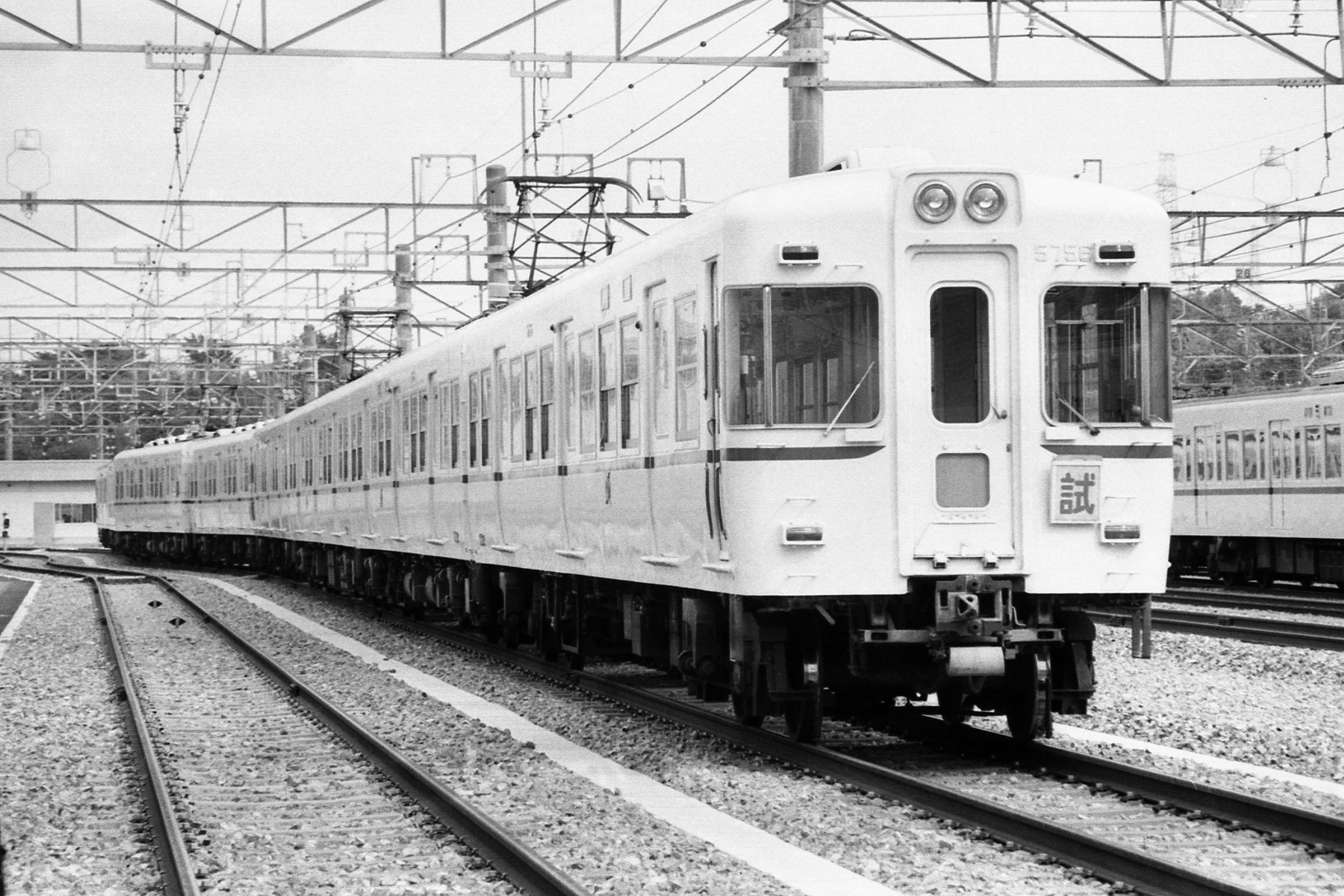 Keio 5756 at Wakabadai